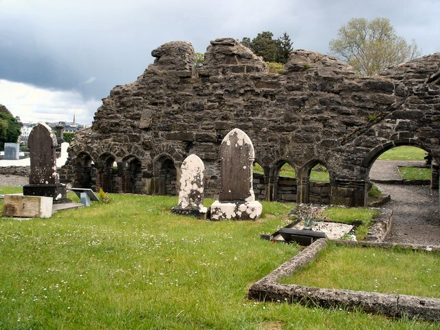 The Friary Donegal The friary of Dun na Gall, which means fort of the foreigners was constructed for the Franciscans in 1474 and plundered in 1588 but rebuilt four years later.